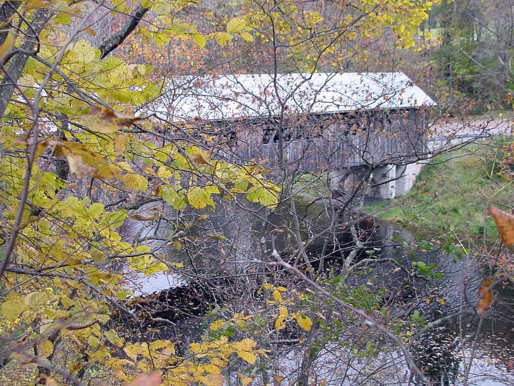 A covered bridge in Vermont